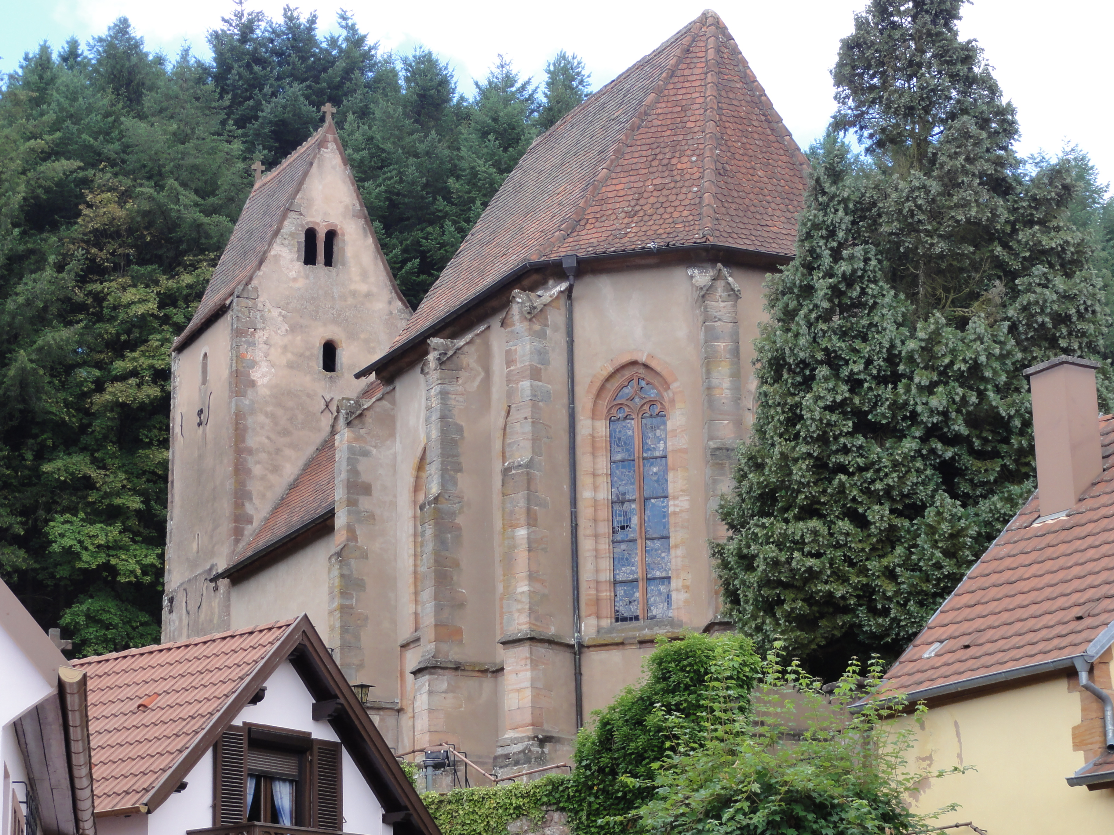 Alsace, Bas-Rhin, Reipertswiller, Église simultanée Saint-Jacques-le-Majeur: It is indexed in the Base Mérimée, a database of architectural heritage maintained by the French Ministry of Culture, under the references PA00084900 and IA67006478 .